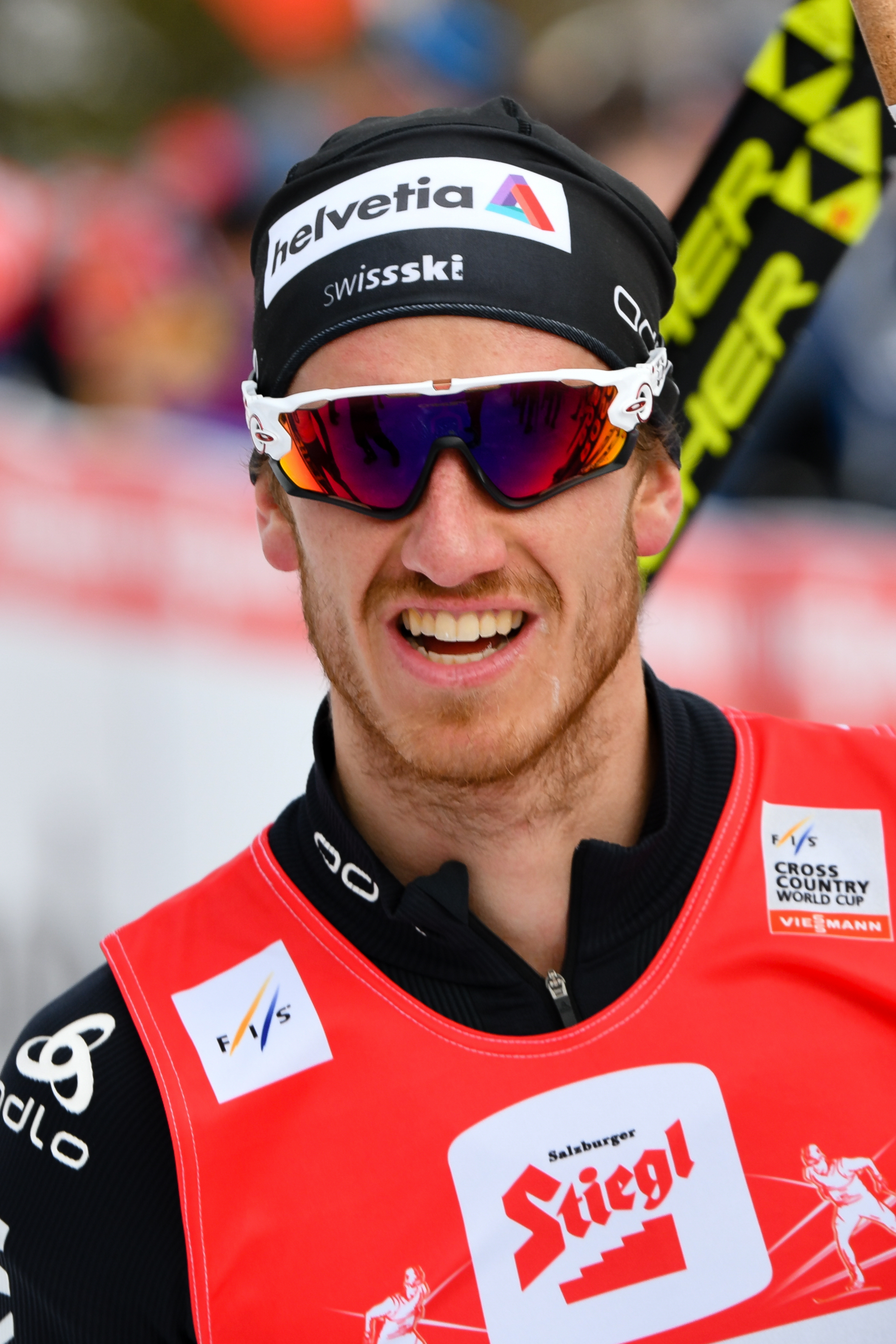 Seefeld-Triple 2018, third day January 28th. Picture shows PRALONG Candide (SUI).